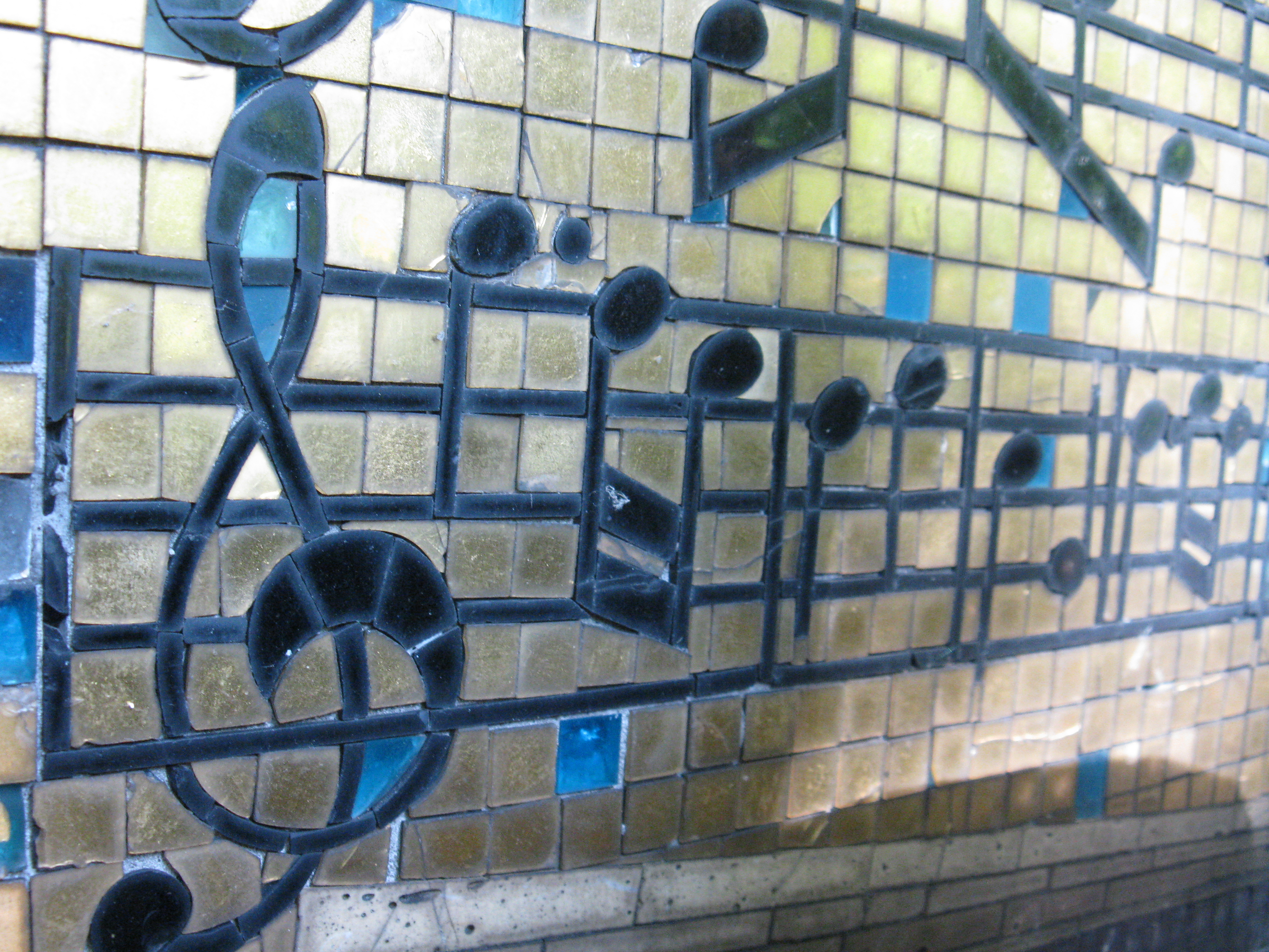 Symphonic poem In the Steppes of central Asias theme. Borodin's tomb. Tichvin cemetery